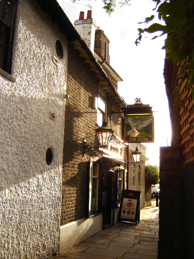 The Dove pub, Hammersmith, London, front entrance. 28 September 2005. Photographer: Fin Fahey